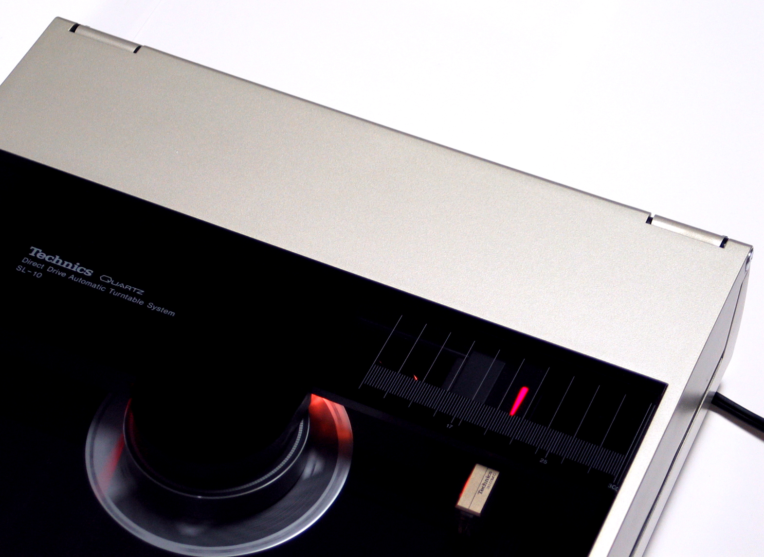 Picture of Technics SL-10, ser.DA26-04M182